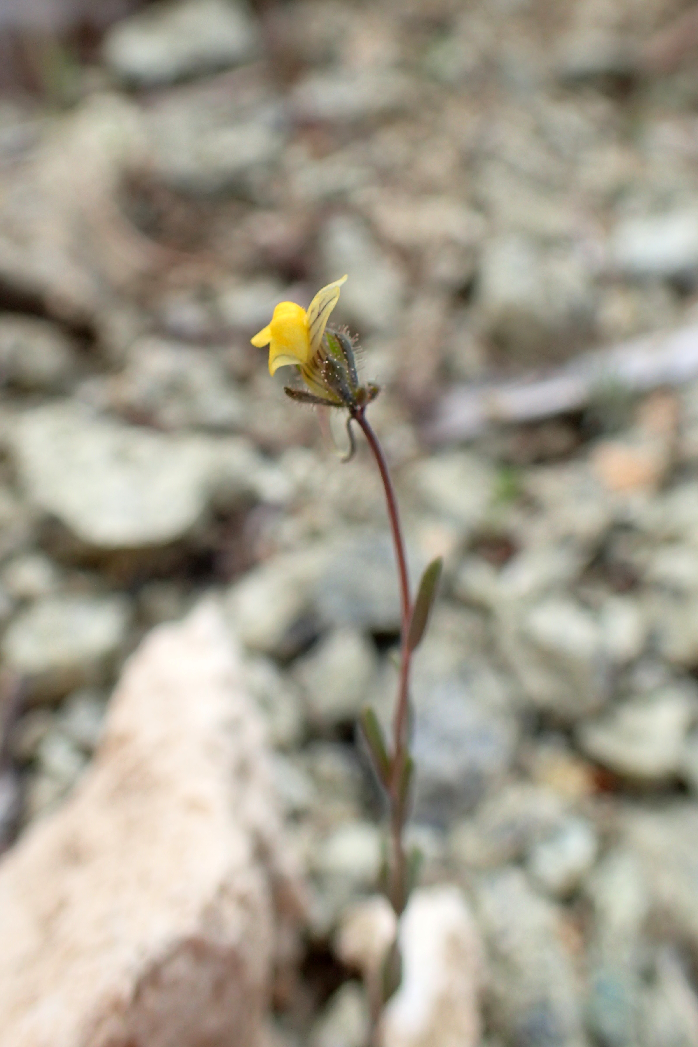 Linaria simplex in Smigies on Akamas Peninsula, Cyprus